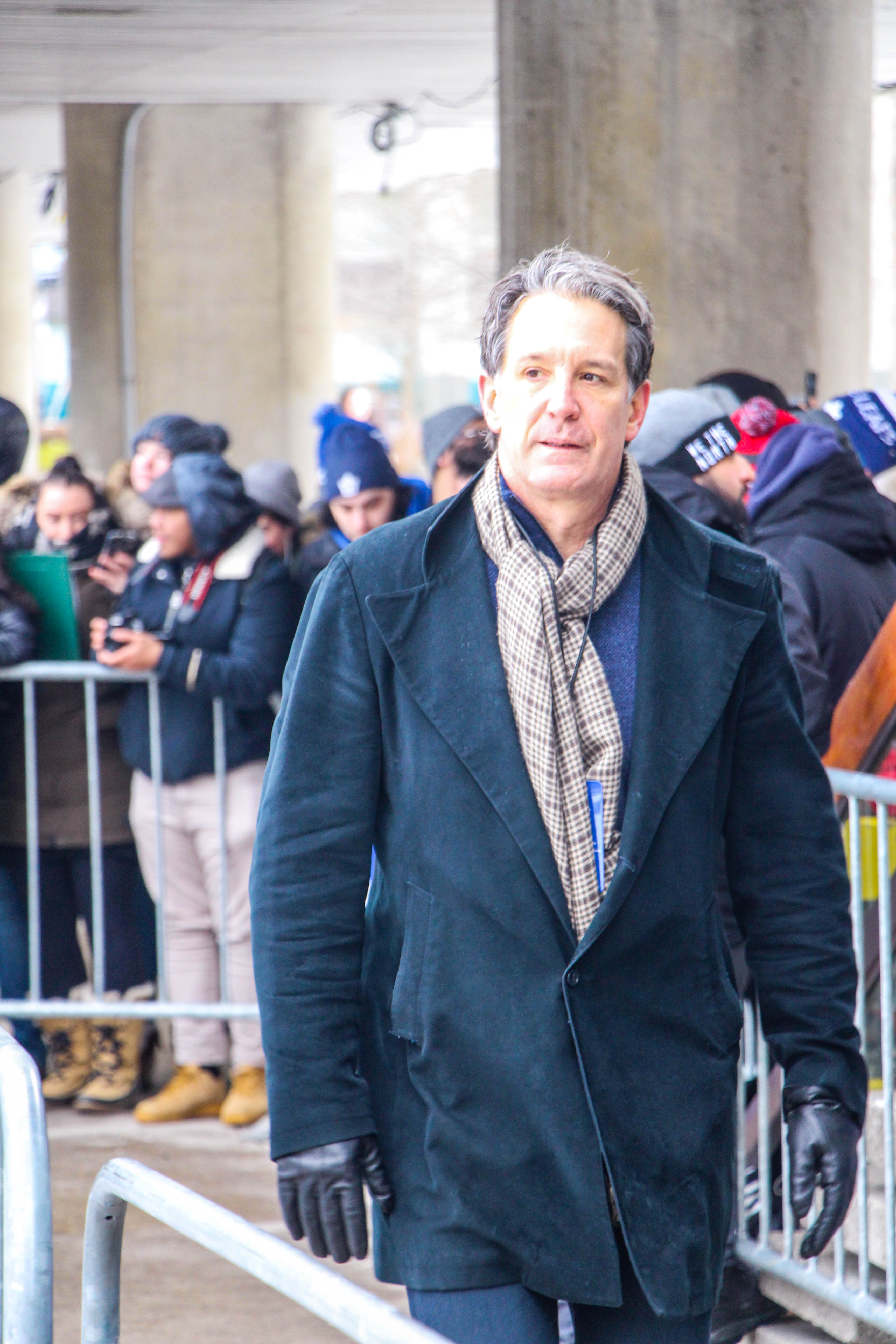 Brendan Shanahan at the Toronto Maple Leafs outdoor practice.